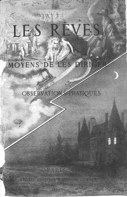 Cover of the book "Les rêves et les moyens de les diriger" de Hervey de Saint-Denys